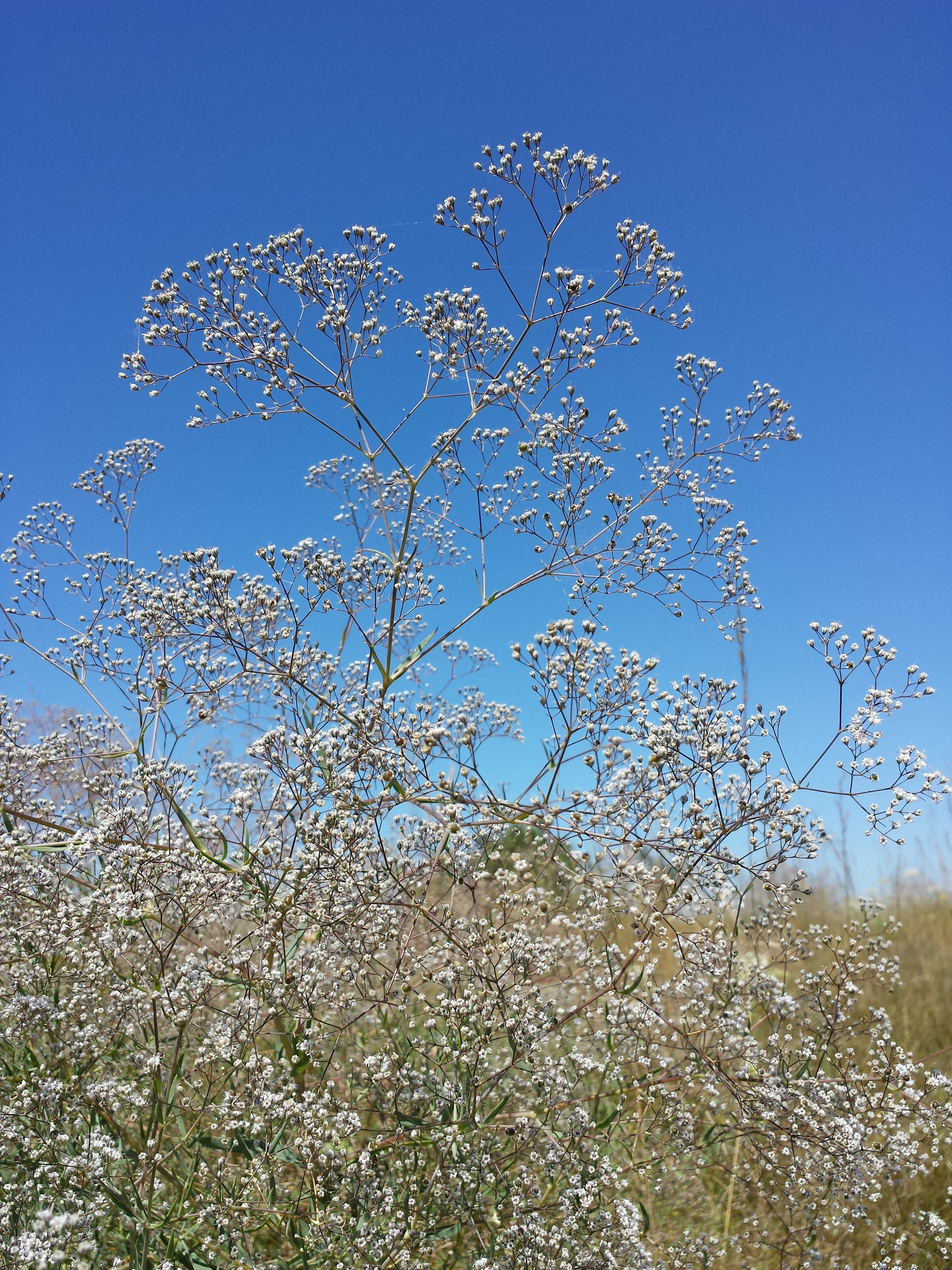 Florescence Taxon: Gypsophila paniculata (sensu Fischer et al. EfÖLS 2008) Location: nature reserve Sandberge Oberweiden, district Gänserndorf, Lower Austria - ca. 160 m a.s.l. Habitat: sand steppe